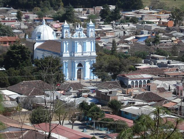 iglesia de la la merced